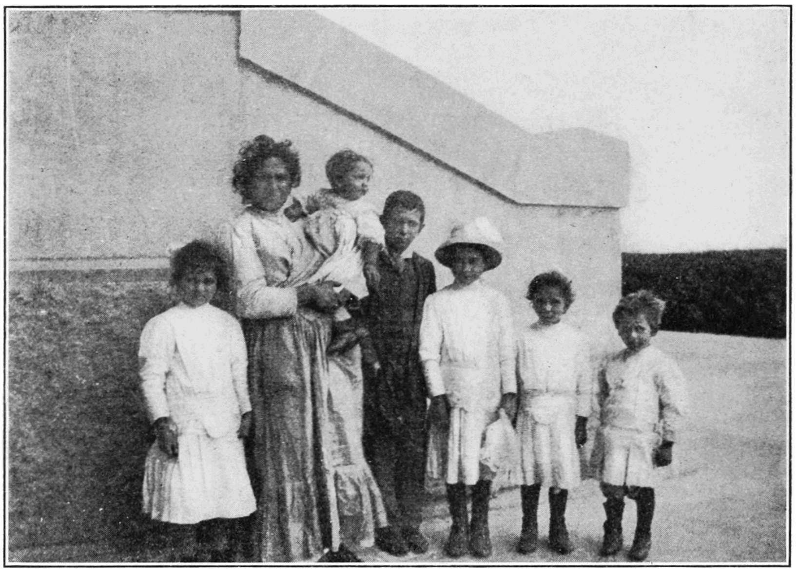 An Italian family at Ellis Island